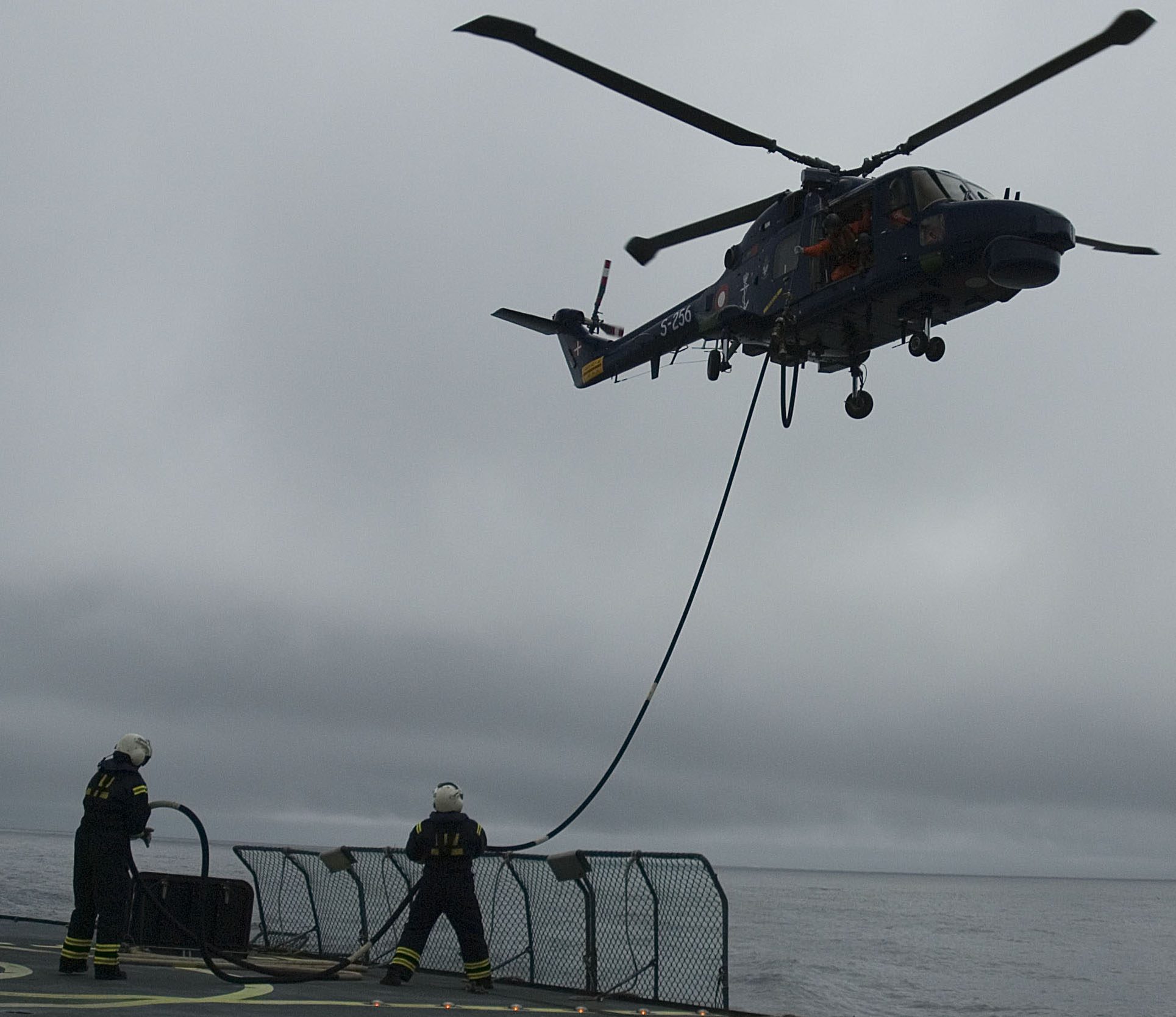 Danish navy helicopter (Westland Lynx) doing Helicopter In-Flight Refueling (HIFR) from a Thetis-class vessel